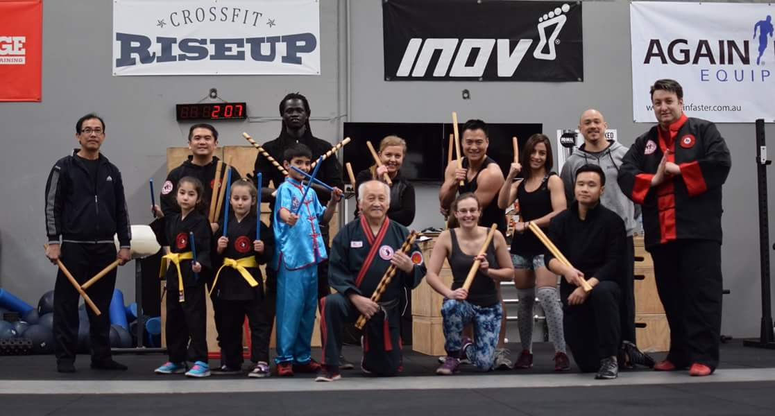 Kali stick seminar group at Ben Poon's Riseup Crossfit center by Terry Lim and Maurice Novoa Ruiz in Melbourne Australia